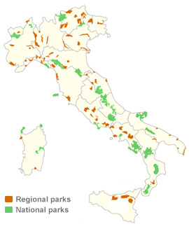 Natural parks in Italy: national parks and regional parks. Regional park National park